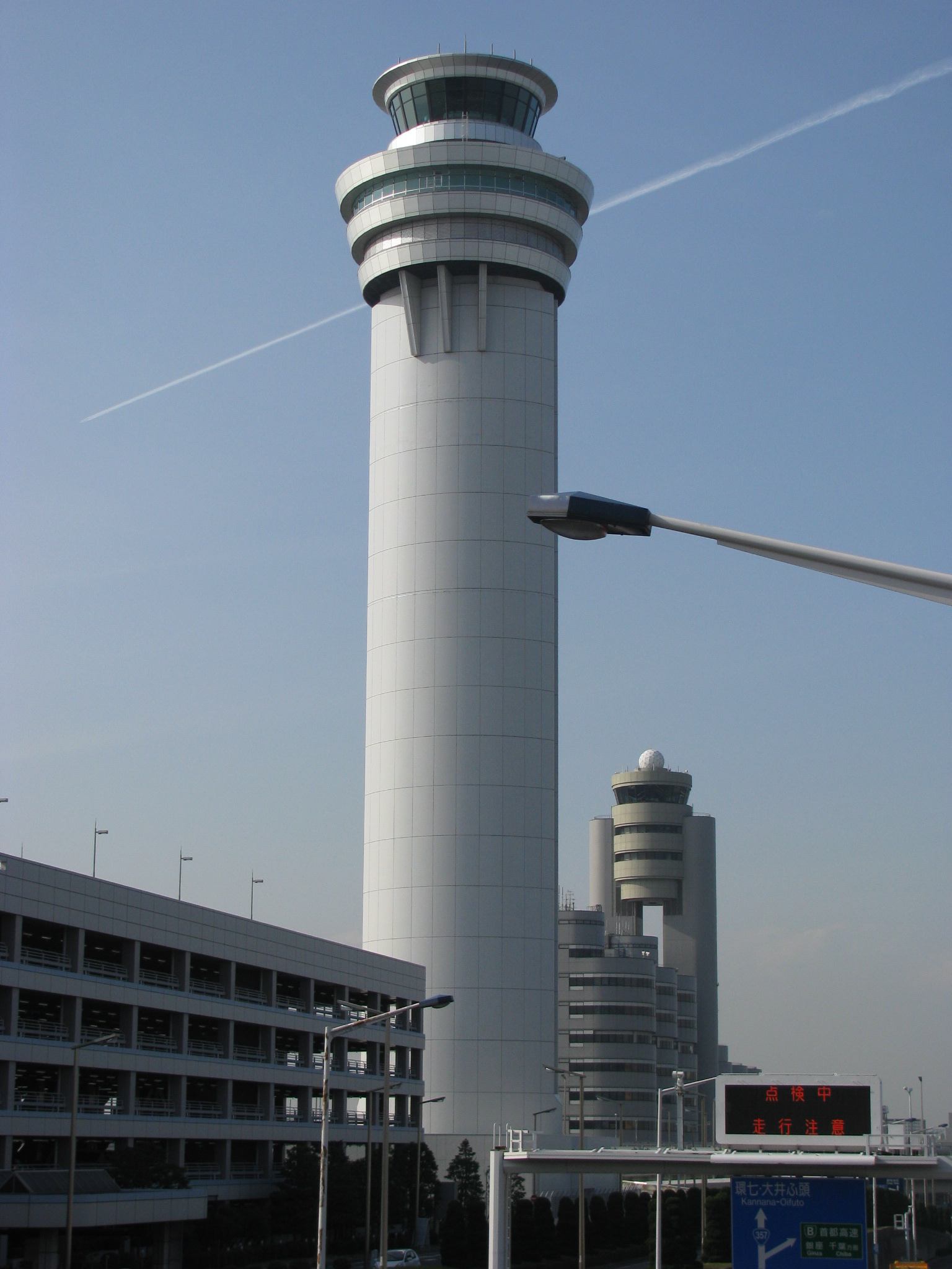 The Control Tower of Tokyo International Airport.